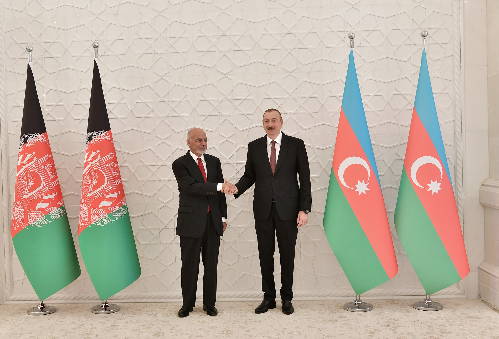 Ilham Aliyev met with President of Afghanistan Ashraf Ghani